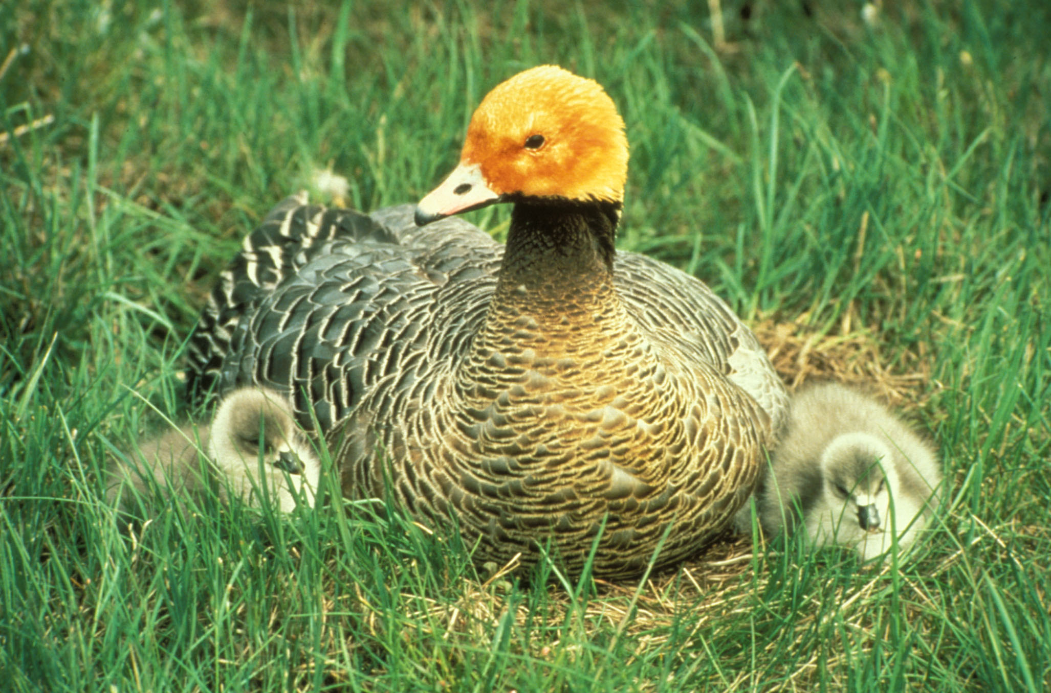 Emperor Goose Chen canagica with goslings, Yukon Delta NWR, Alaska, USA